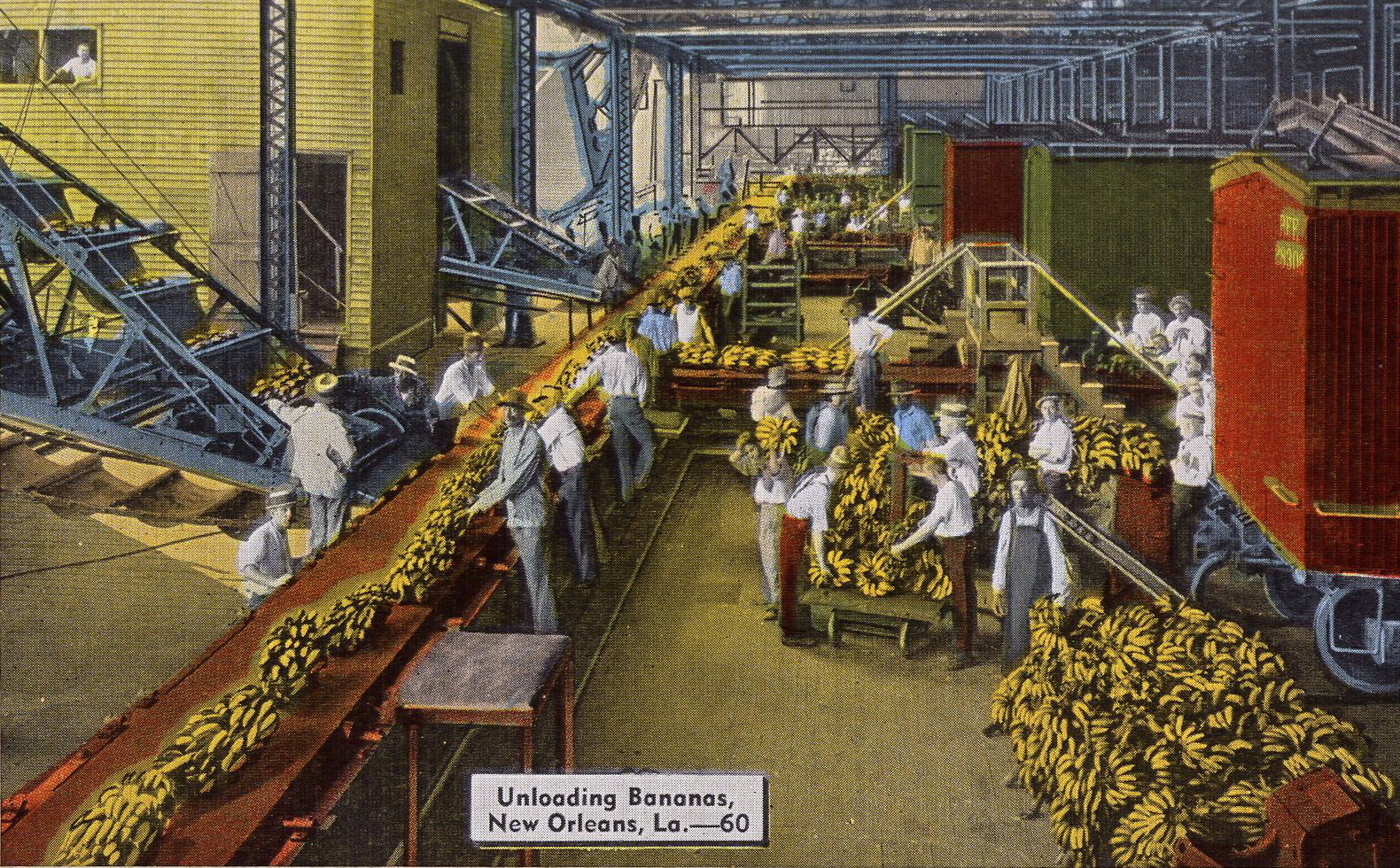 Unloading bananas, New Orleans, Louisiana. Old postcard view. Text on back: "At New Orleans, the world's greatest banana port, more than 700 ships arrive each year loaded, each with 25,000 to 50,000 bunches of this popular fruit. At the banana wharves the individual bunches are carried from the hold of the ship to the door of the refrigerator car on mechanical conveyors."